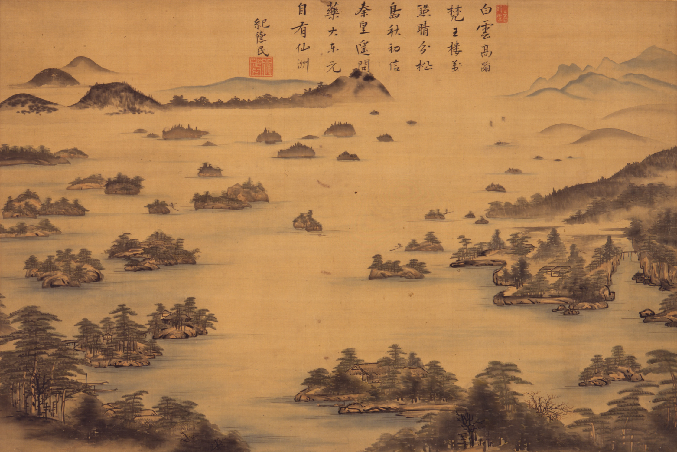 Matsushima shinkei zu, by Hosoi Heishū, Tōhoku History Museum, Tagajō, Miyagi, Japan